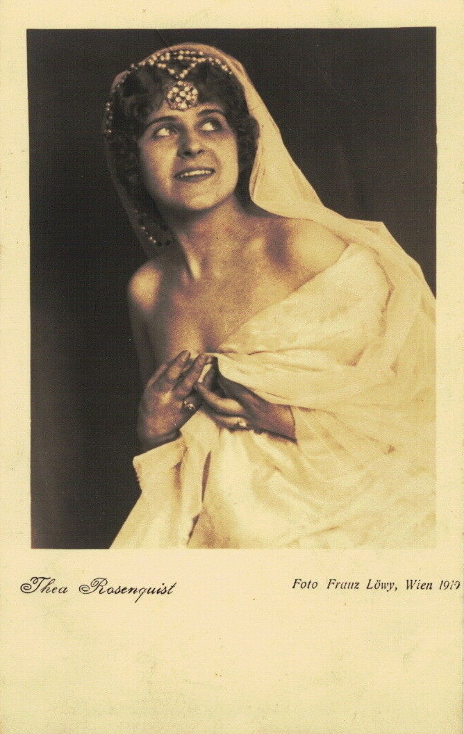 Postcard portrait of German actress Thea Rosenquist (1896–1959) by Franz Löwy, Wien (Vienna).